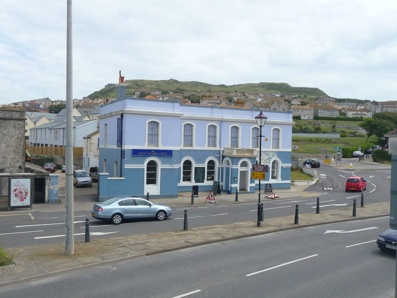 Royal Victoria Lodge Portland-Geograph-2843563-by-Chris-Talbot